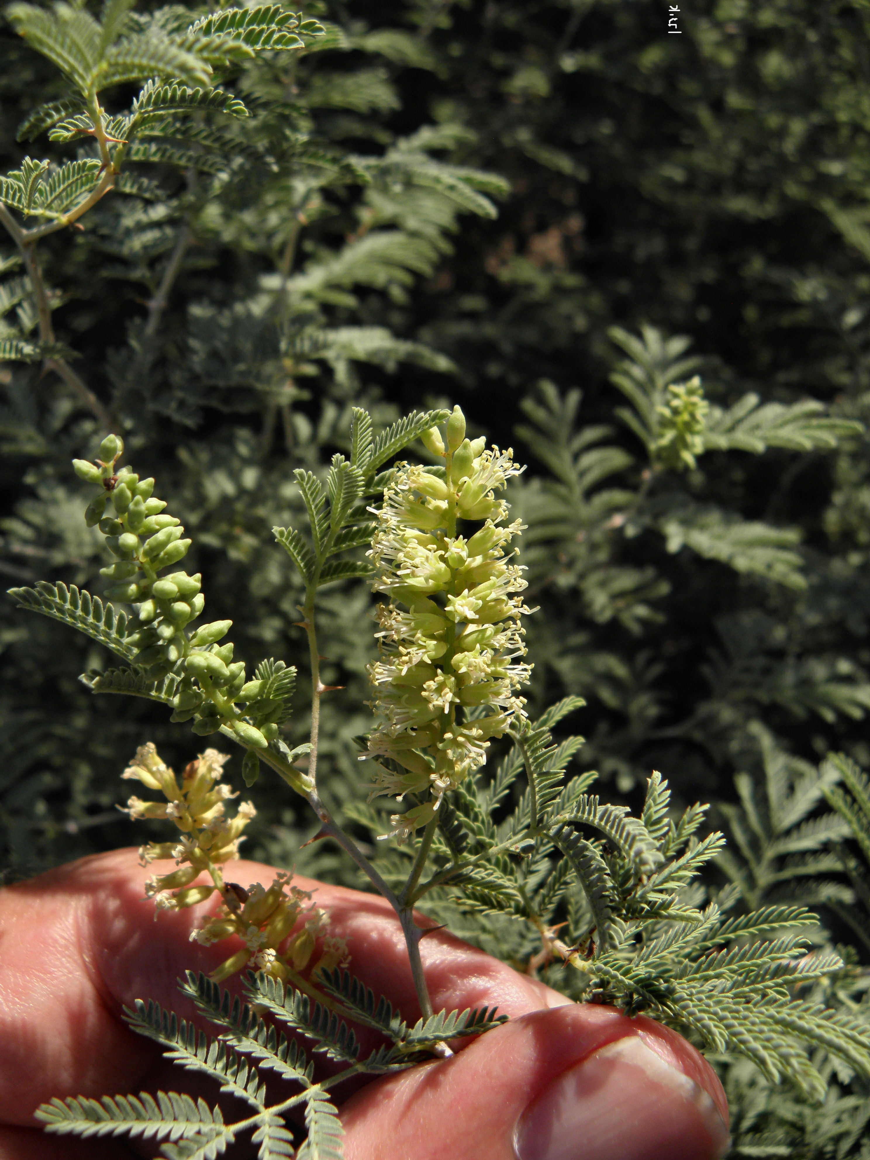 Prosopis farcta flowering. ינבוט השדה פורח